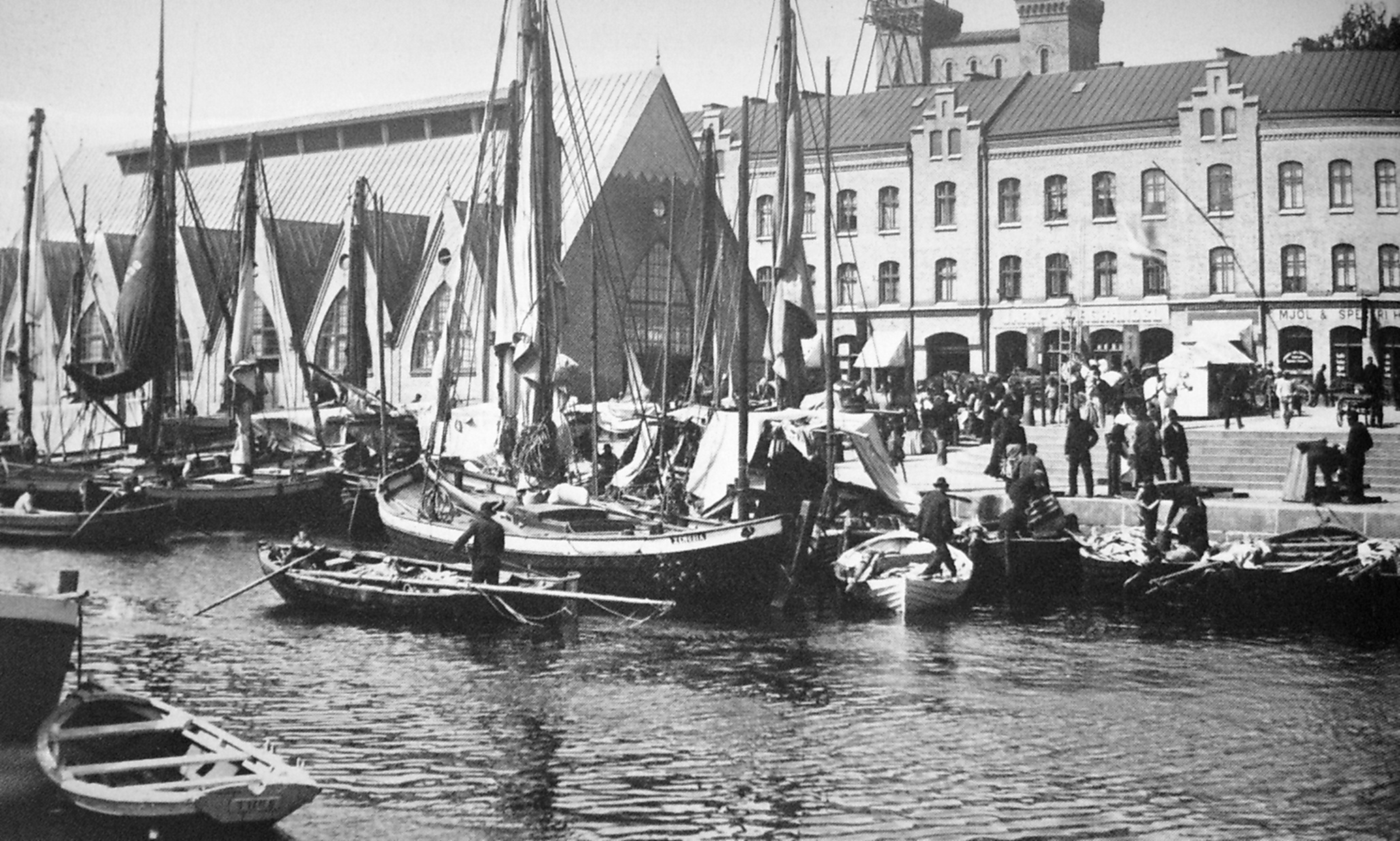 Picture of Feskekörka in Göteborg